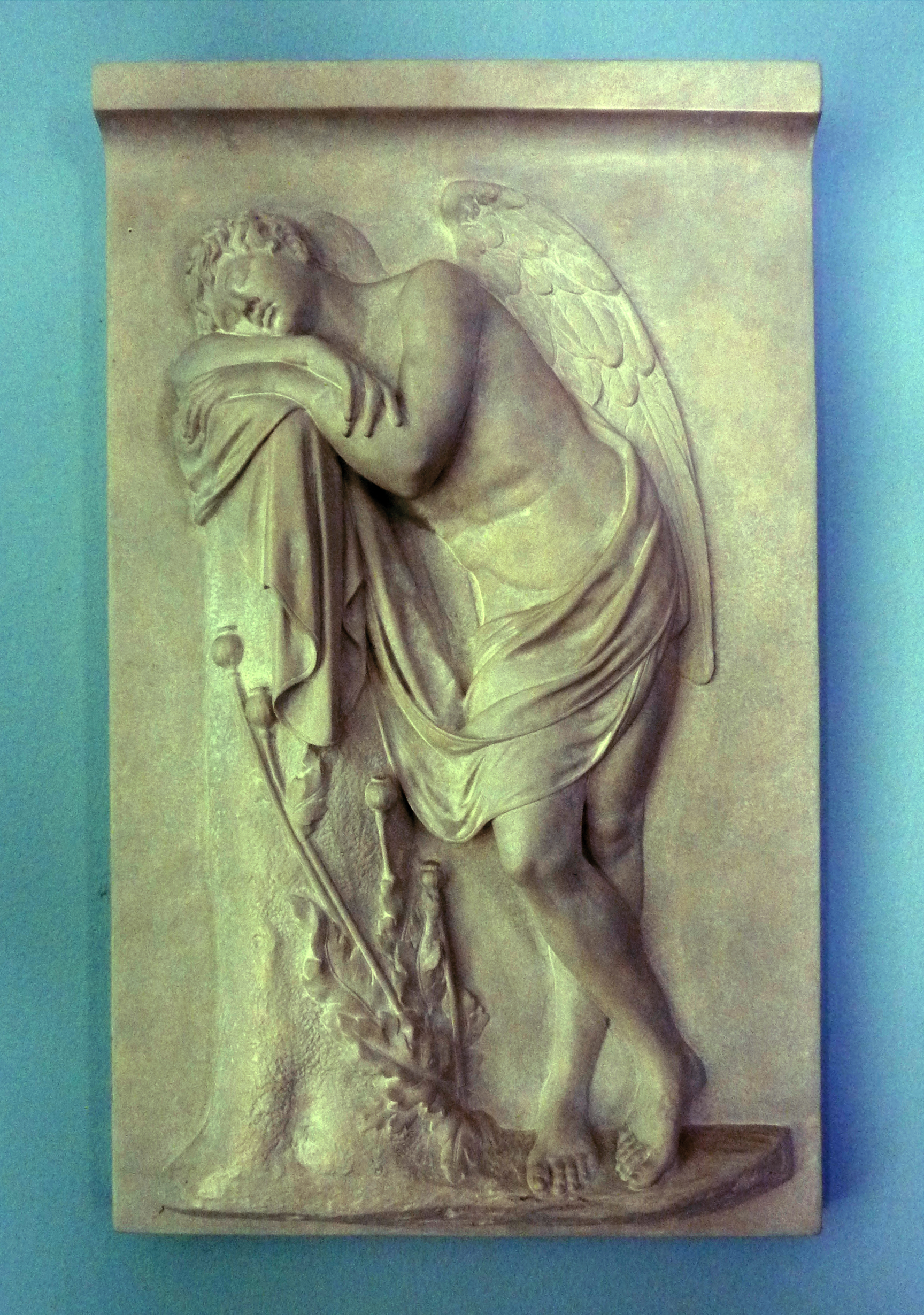 Hypnos - relief by Johann Gottfried Schadow for a side panel on the tomb of Count Alexander von der Mark.